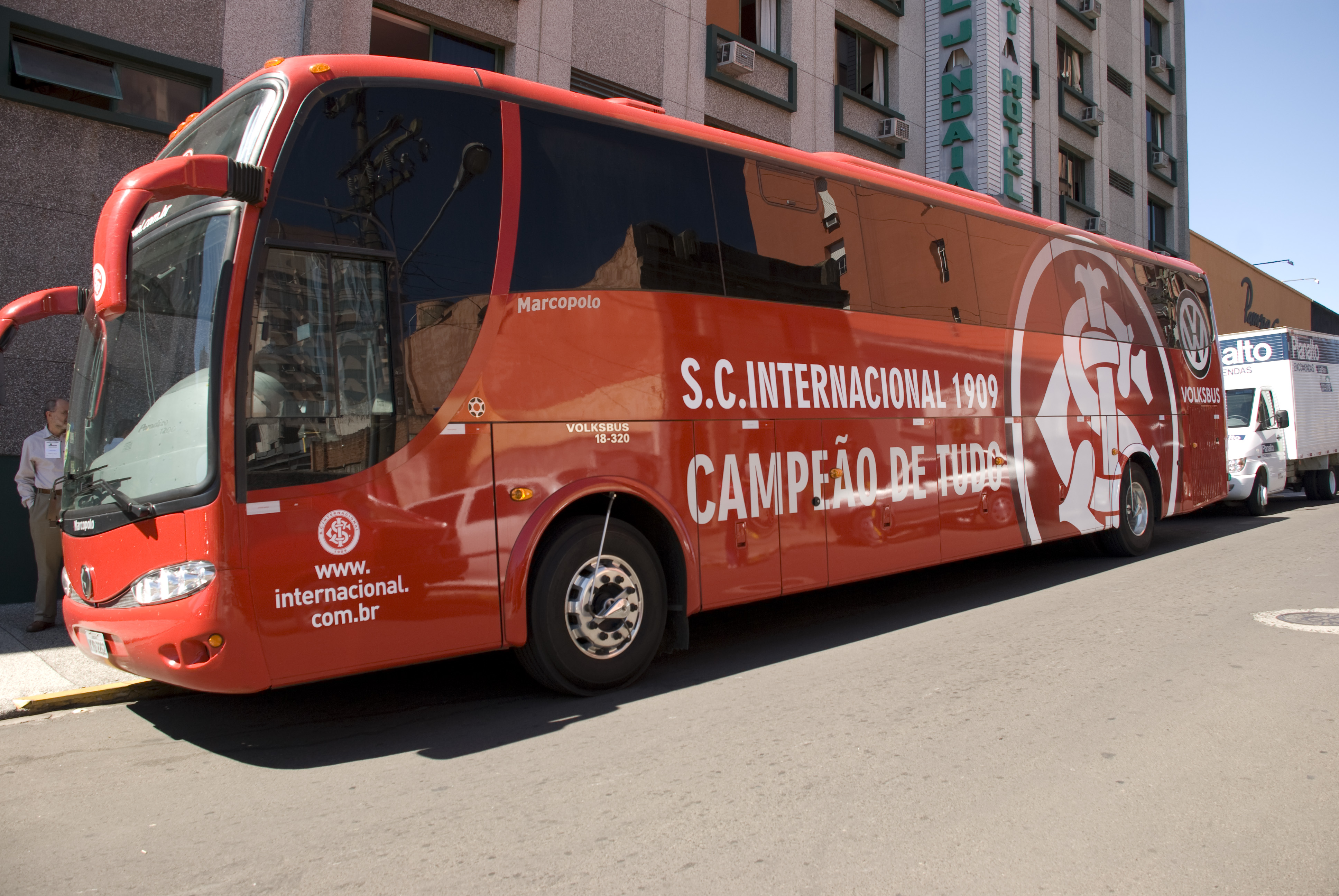 Ônibus do Inter na frente do hotel em Livramento.